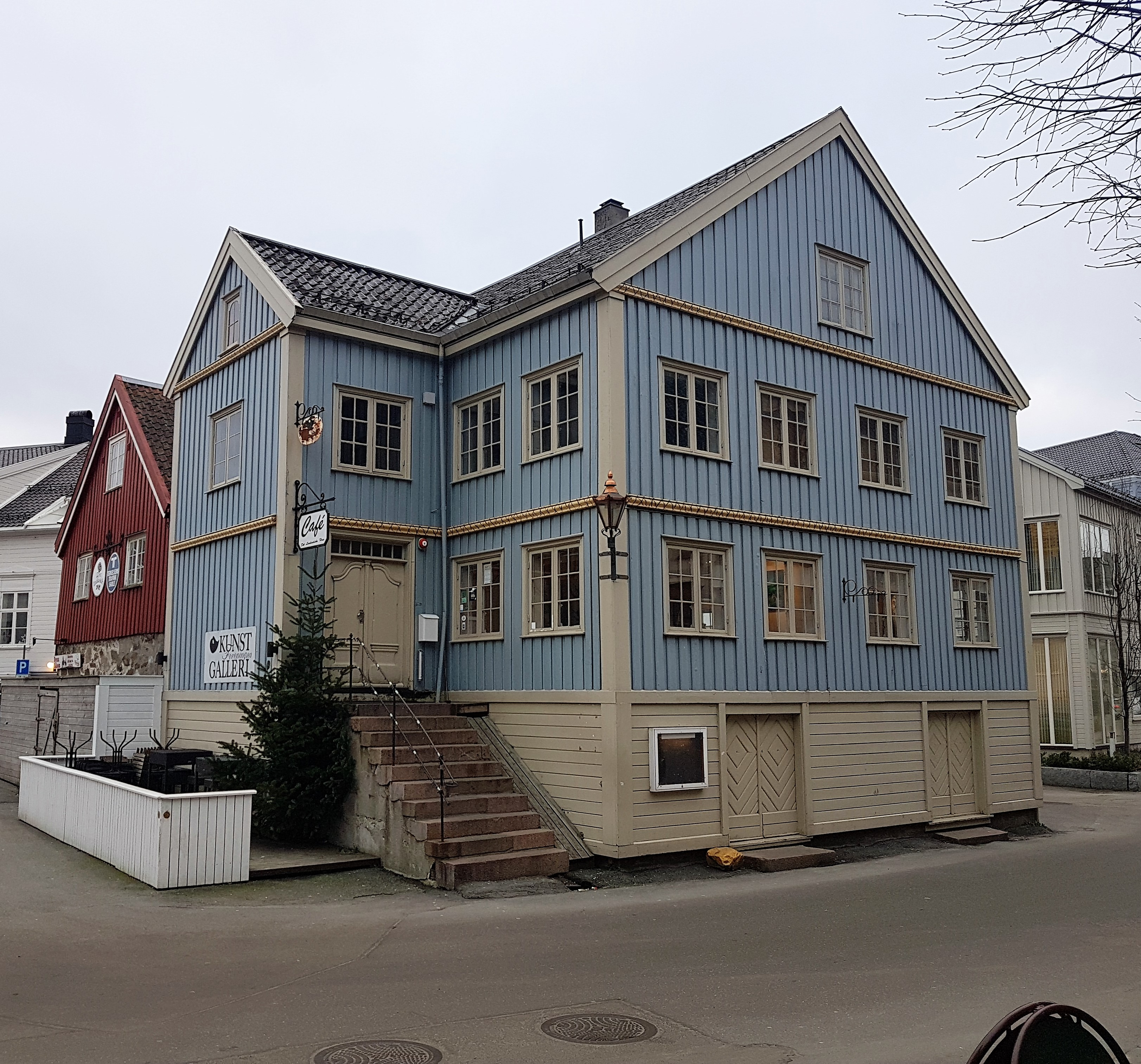 Lindvedske hus in Arendal